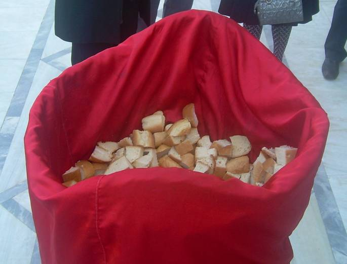 Antidora (singular: antidoron) in a basket, covered in red cloth. Photo by User:FocalPoint